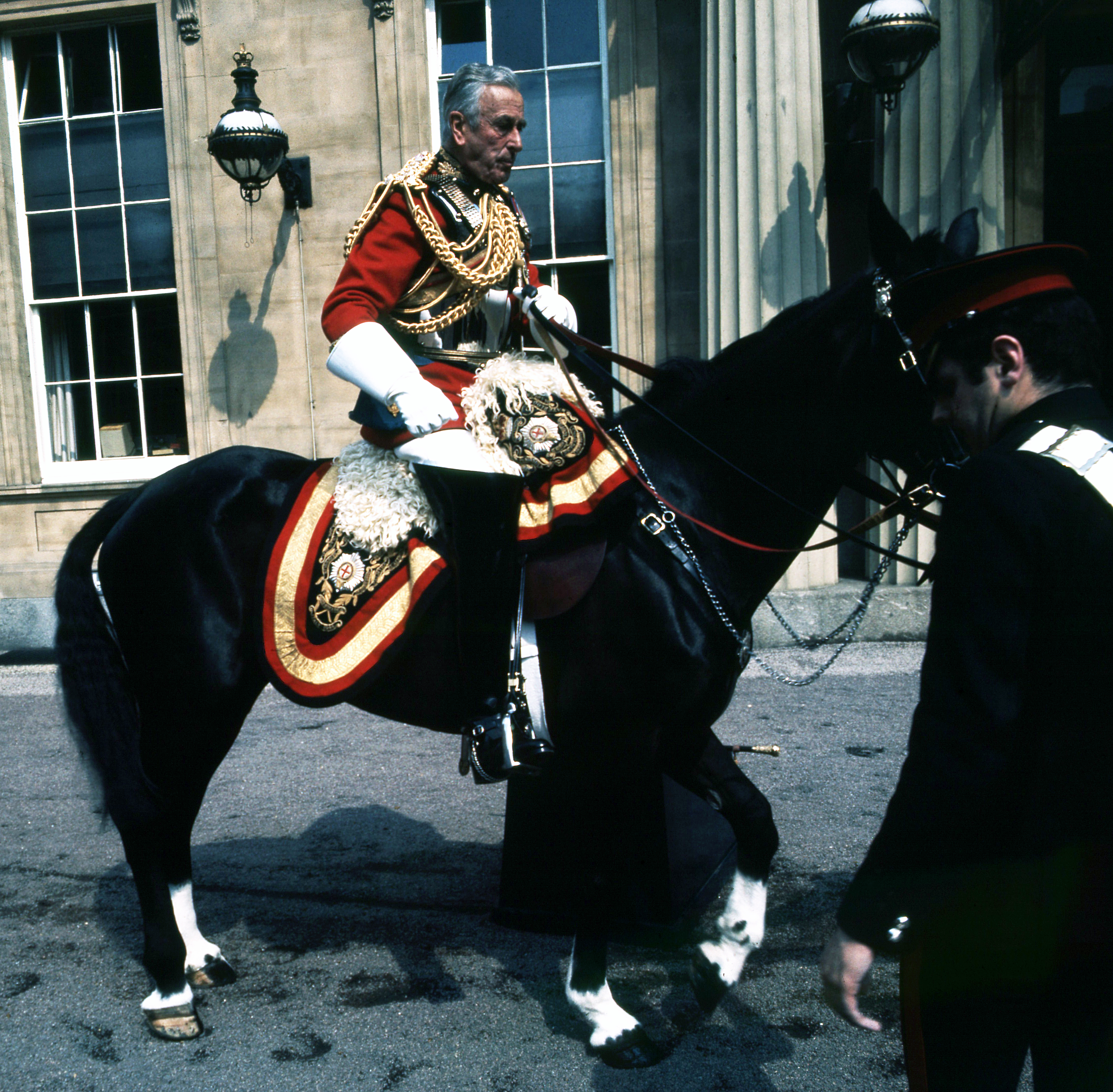 Lord Mountbatten taken in the quadrangle of Buckingham Palace